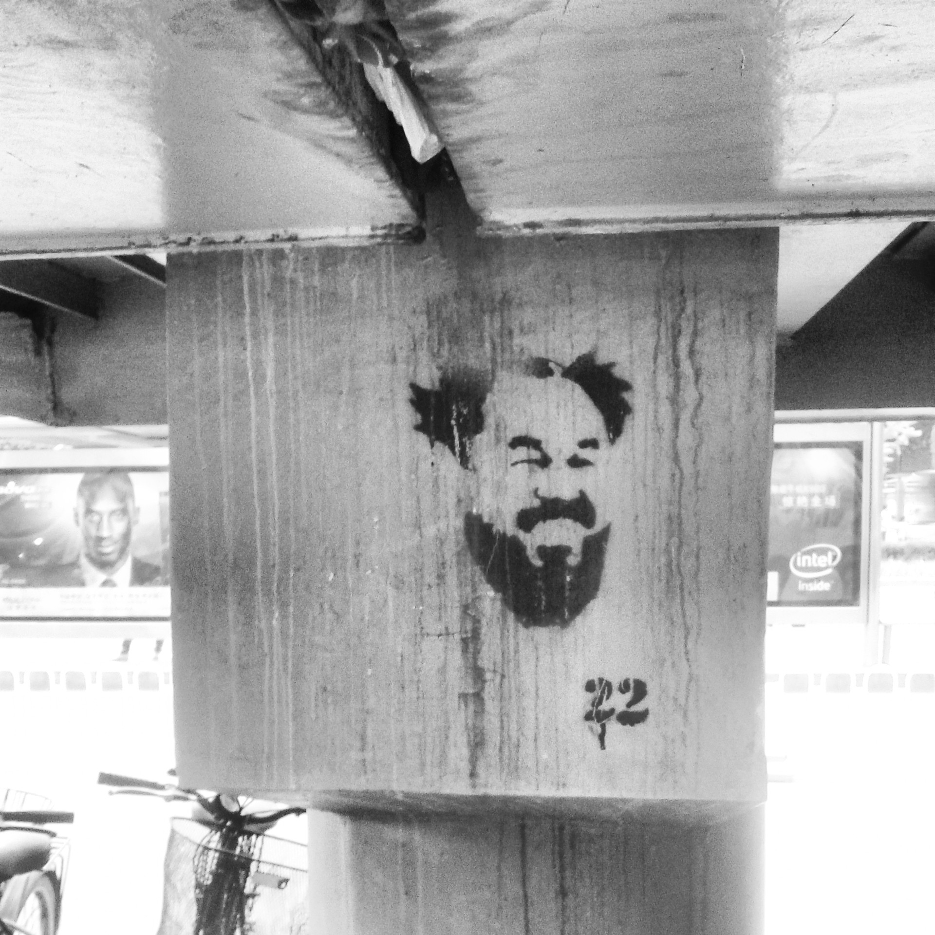 free aiww